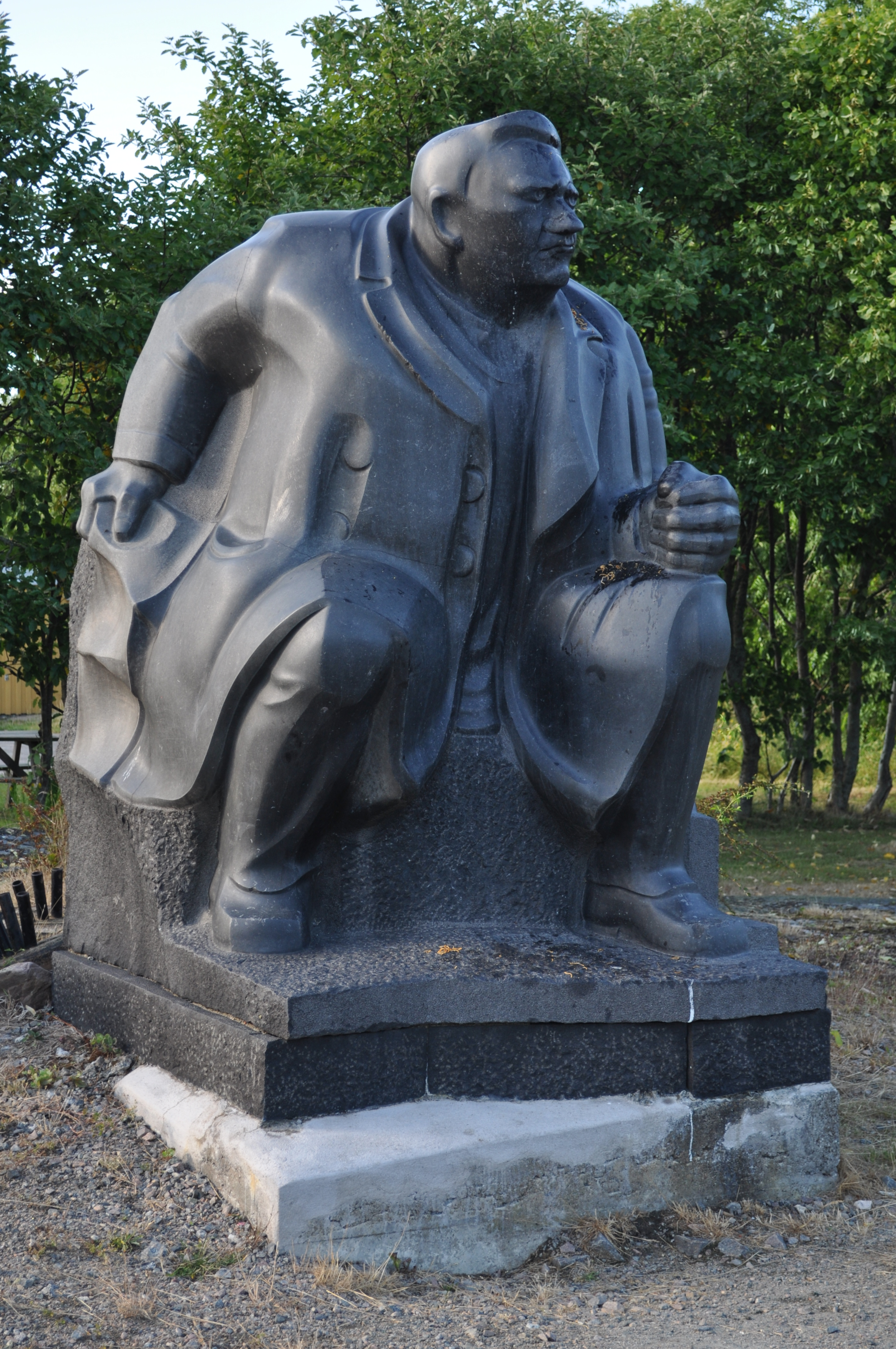 Fabian Månsson (1872-1938)